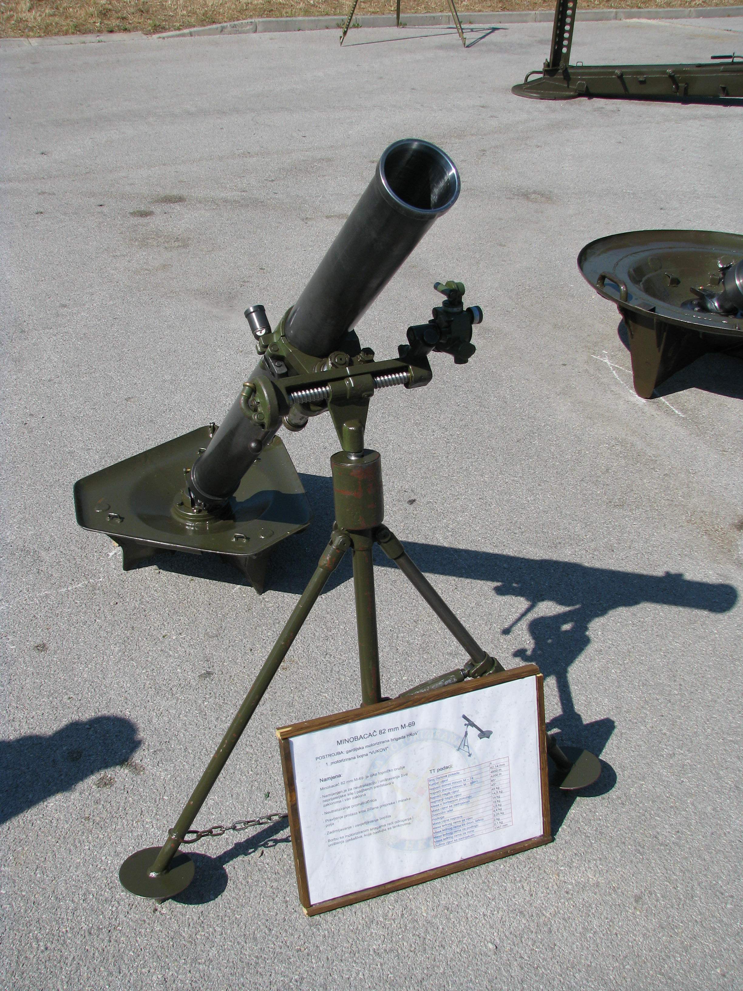 Mortar 82mm M-69 (Croatian Army)